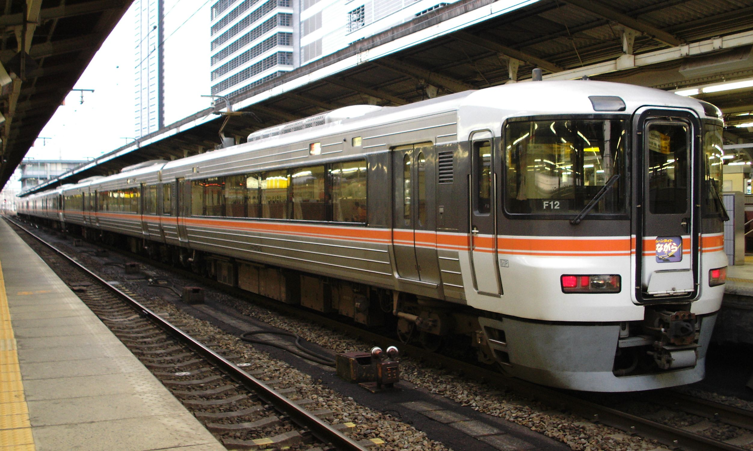 A JR Central 373 EMU formation at Nagoya Station on an overnight Moonlight Nagara service